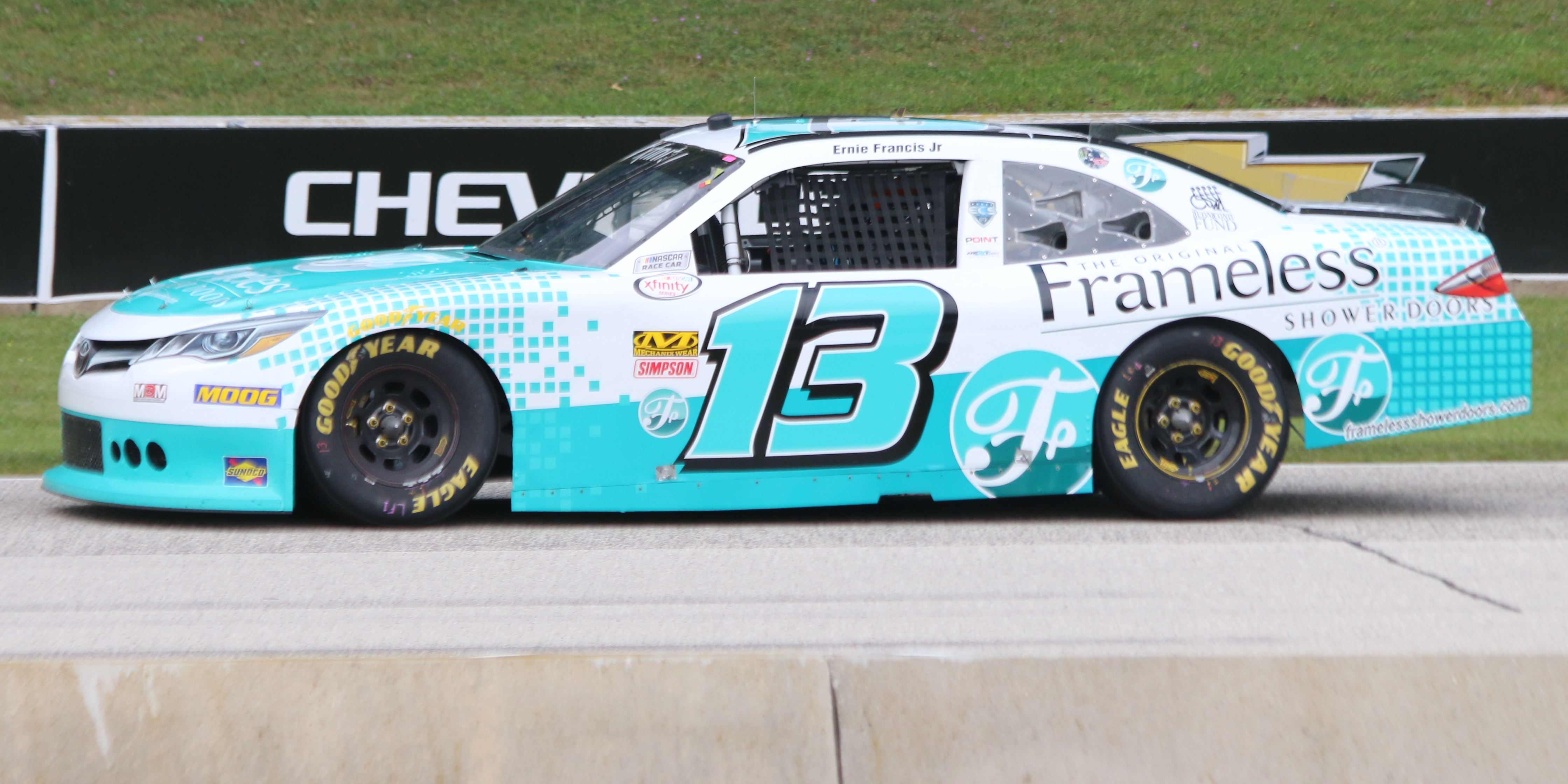 The Toyota Camry of Ernie Francis Jr at the NASCAR Xfinity Series Johnsonville 180.